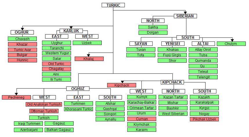 Tree of the Turkic languages based on data from ethnologue[1]